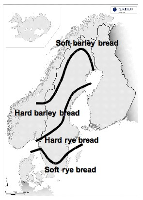 A map over the Nordic countries with lines, which shows where different types of traditionally bread were used around the 1880s, according to Åke Campbell (1950)